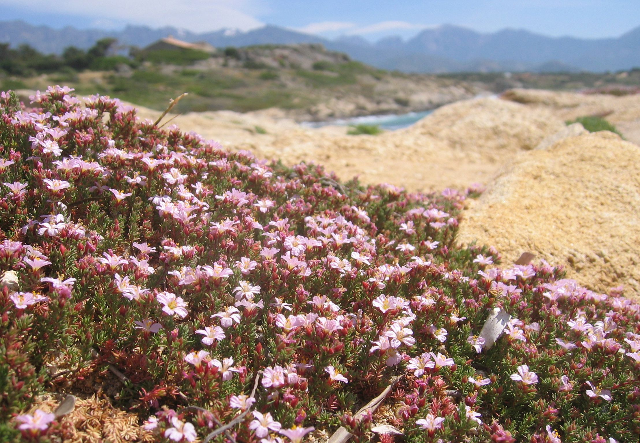 Probably Franknia laevis (but also Frankenia hirsuta possible ) Beach of Arinella, Corse, France